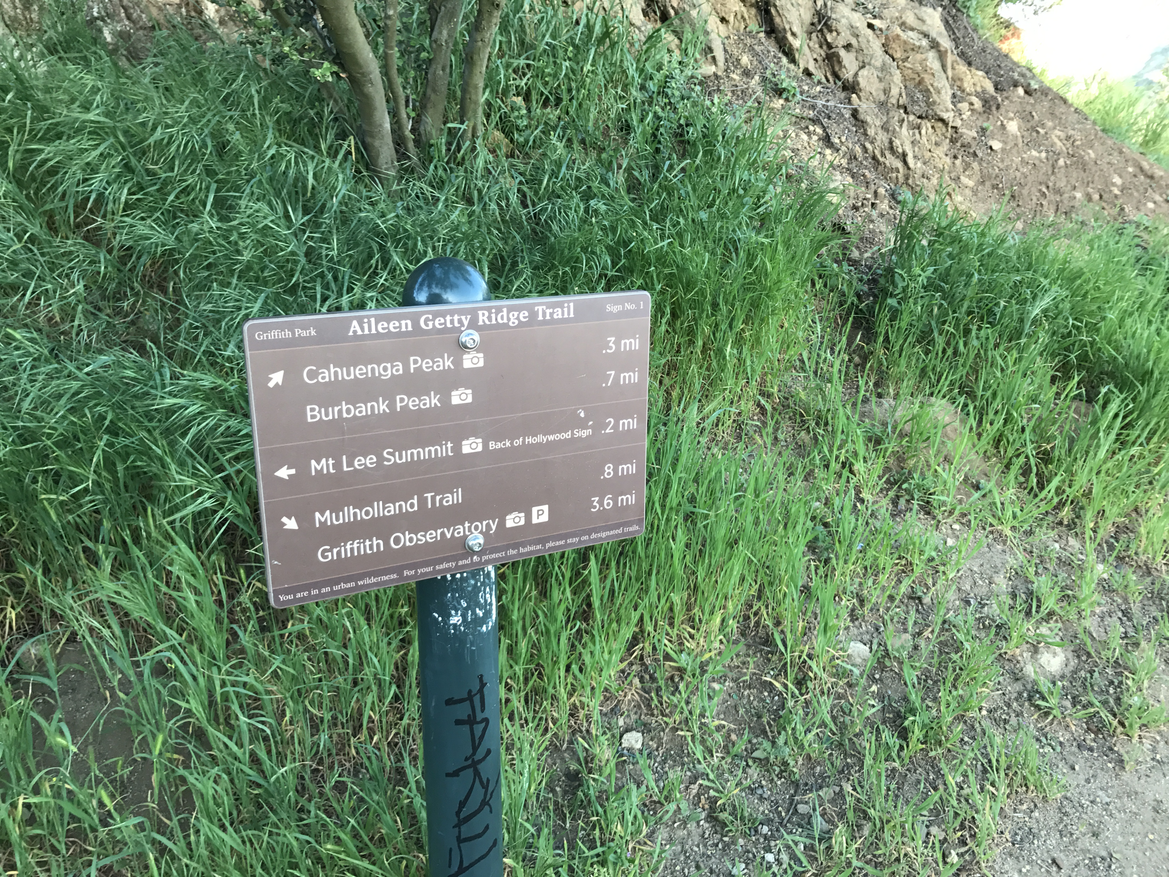 Trail junction sign on the Aileen Getty Ridge Trail pointing to Cahuenga Peak, Burbank Peak, Mt Lee Summit, Mulholland Trail, and Griffith Observatory.